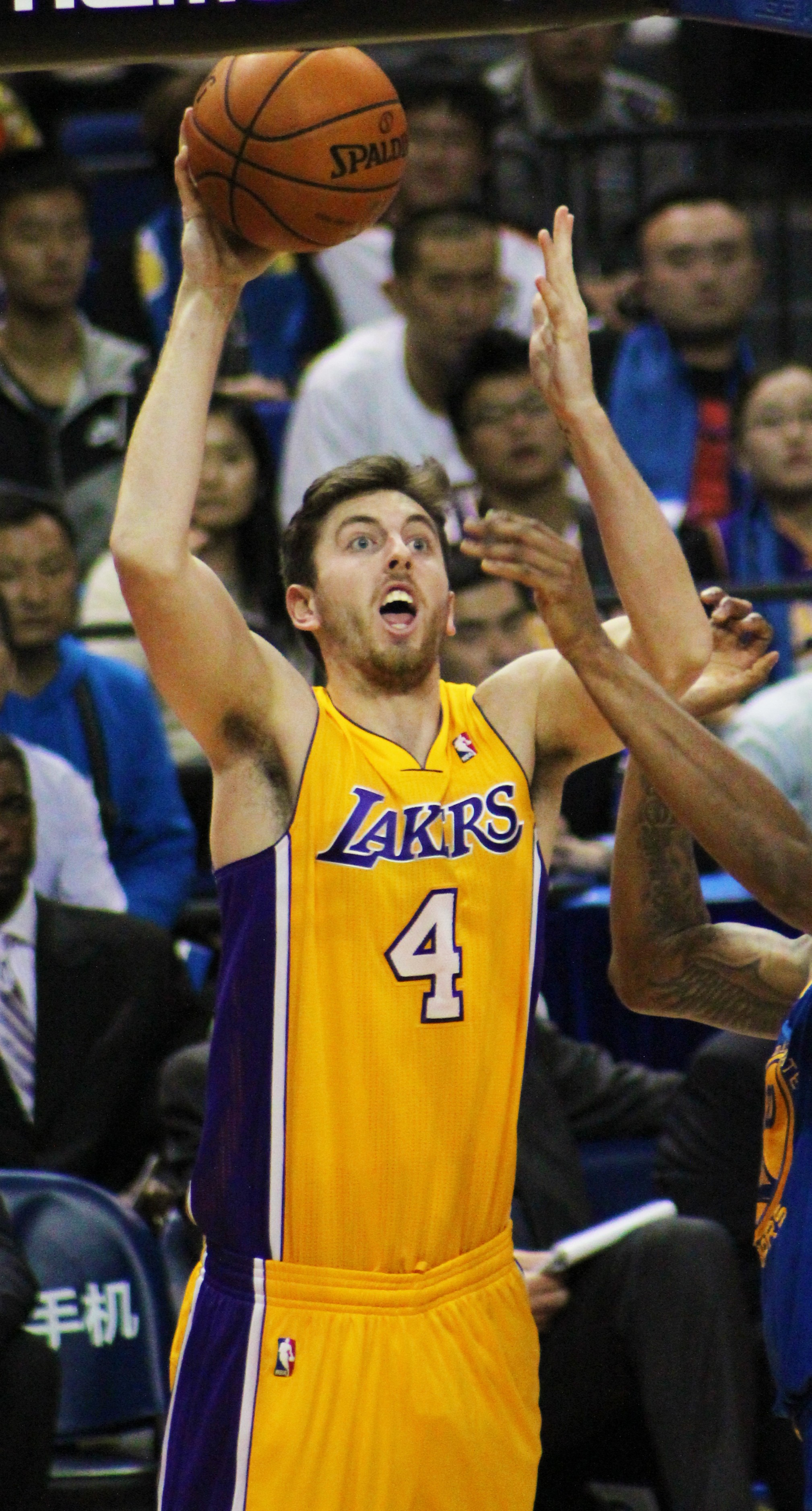 Ryan Kelly